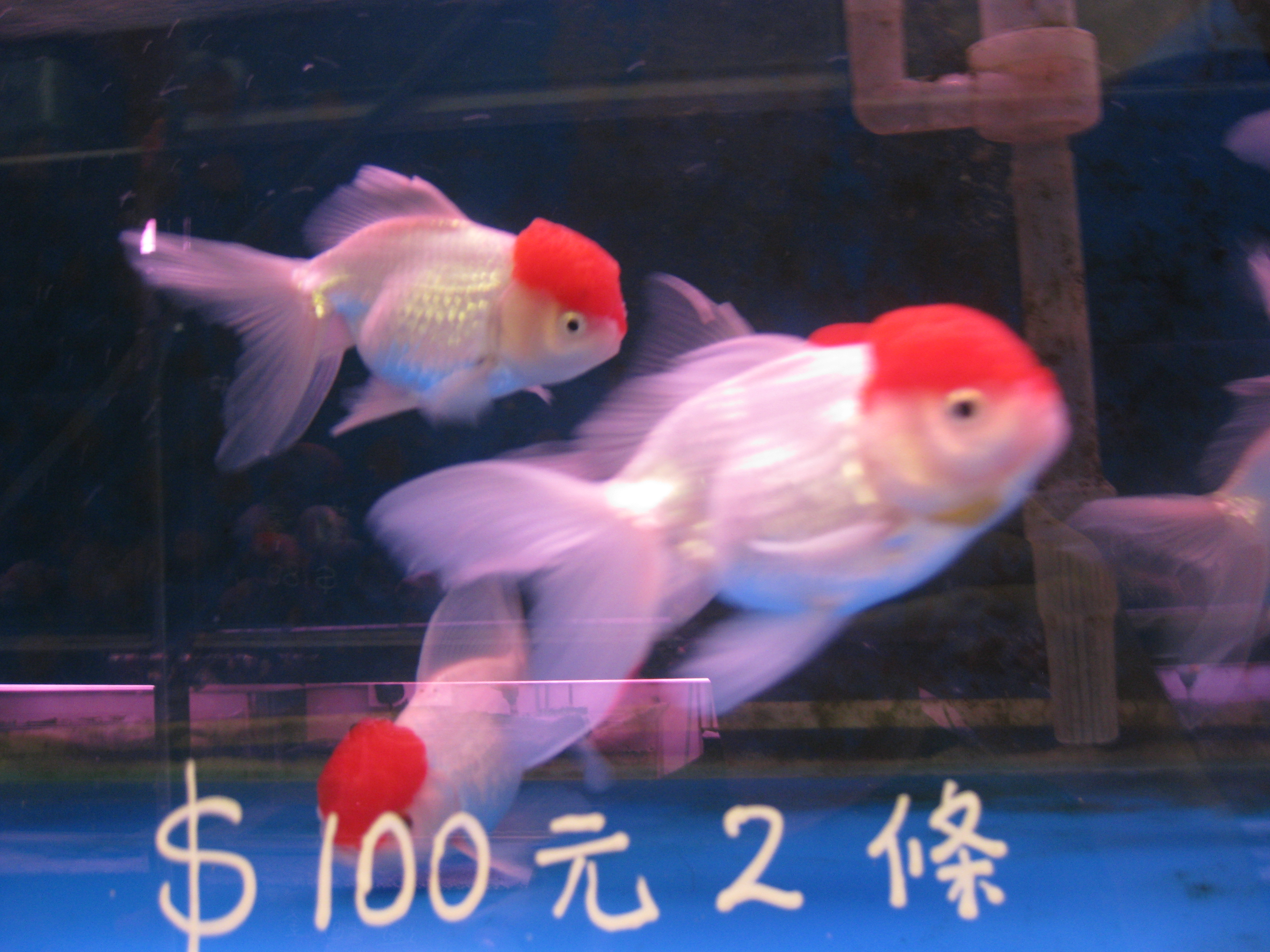 Hong Kong Goldfish Market